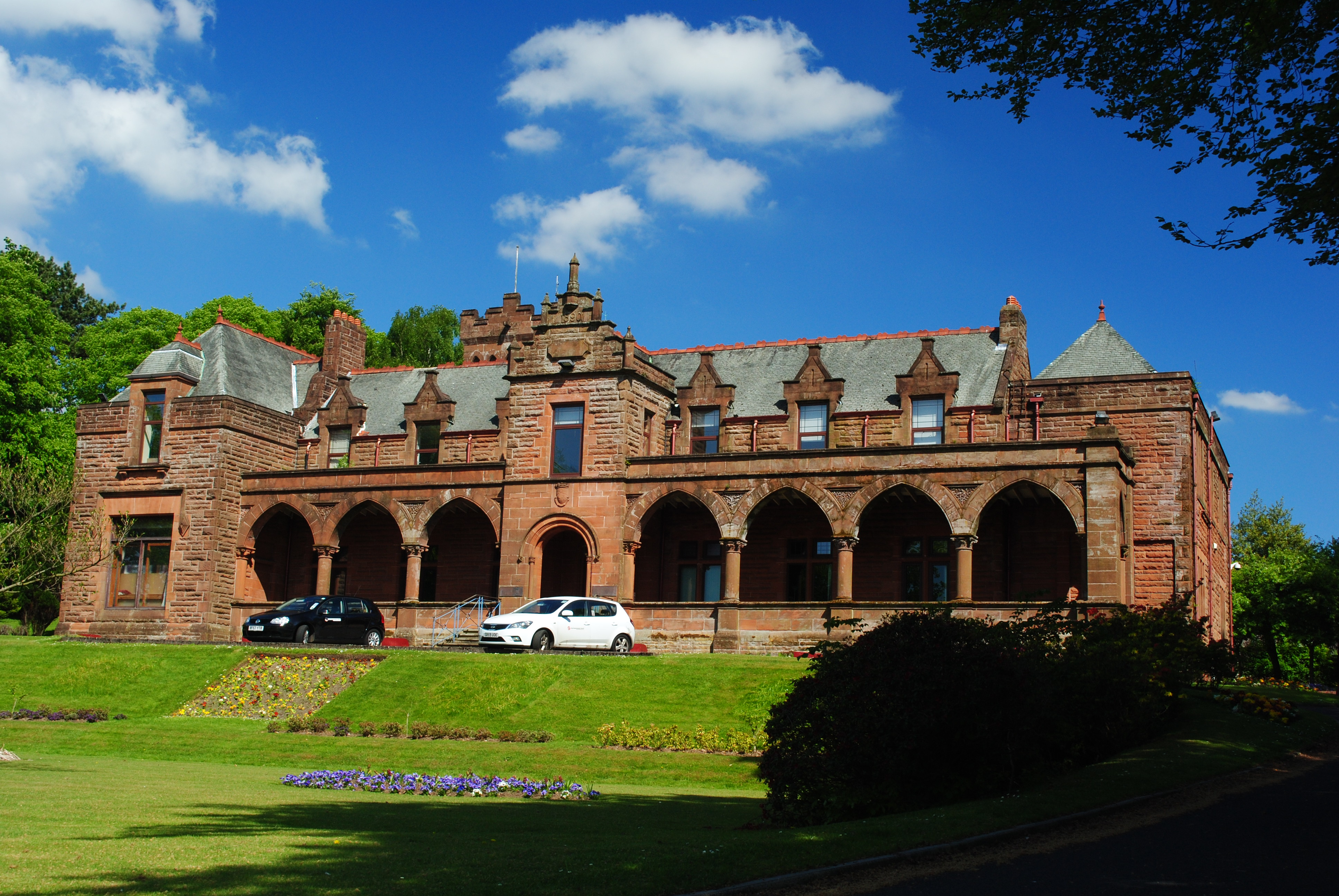 Boclair House, Bearsden, Scotland. Until recently used by East Dunbartonshire Coucil as offices for their Education Department, it is currently (Apr 2015) being converted into a hotel with housing to the rear. Built in 1890 as Buchanan Retreat by three members of the Buchanan family as a retirement home for family members, the house was under-utilised and was subsequently taken over by Bearsden Burgh in 1962.